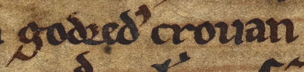 An excerpt from folio 50v of the Chronicle of Mann (Cotton MS Julius A VII). The excerpt reads in Latin "Godredus Crouan". The man referred to is Gofraid Crobán, King of Dublin and the Isles (died 1095).